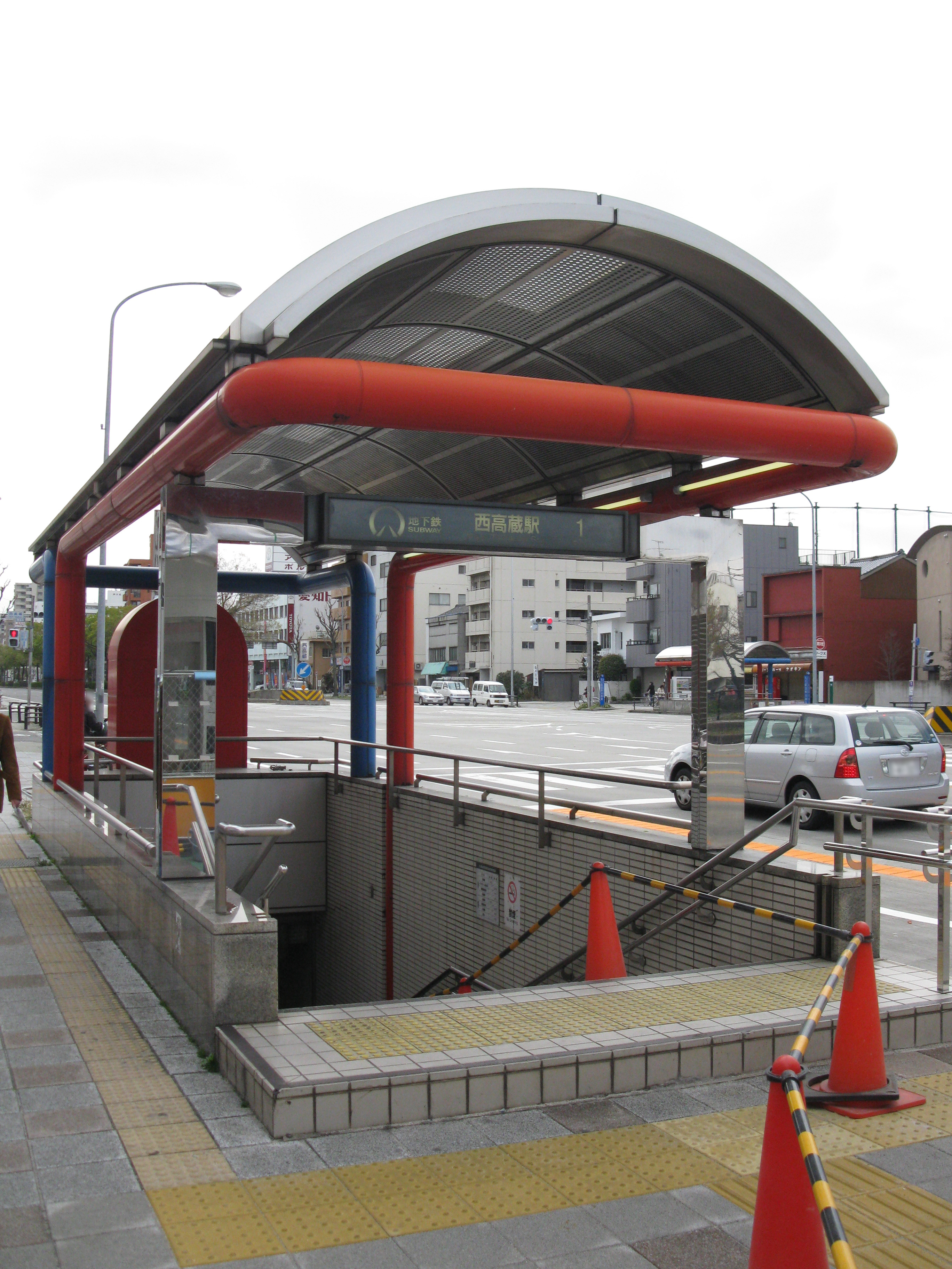 Nishi Takakura Station no.1 entrance (Nagoya Municipal Subway Meijō Line)